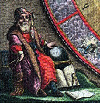 The Greek astronomer Aristarchus of Samos (310 BC - 230 BC), in the 17th century atlas of Andreas Cellarius.